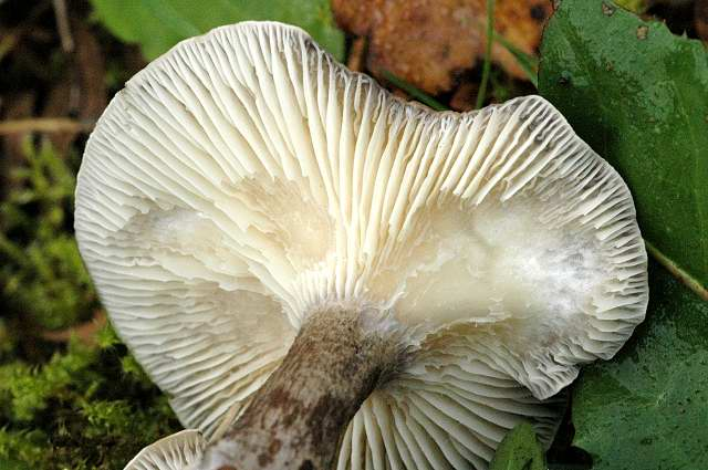 Entoloma elodes from Commanster, Belgium. If you think this is a different taxon, please contact James Lindsey.